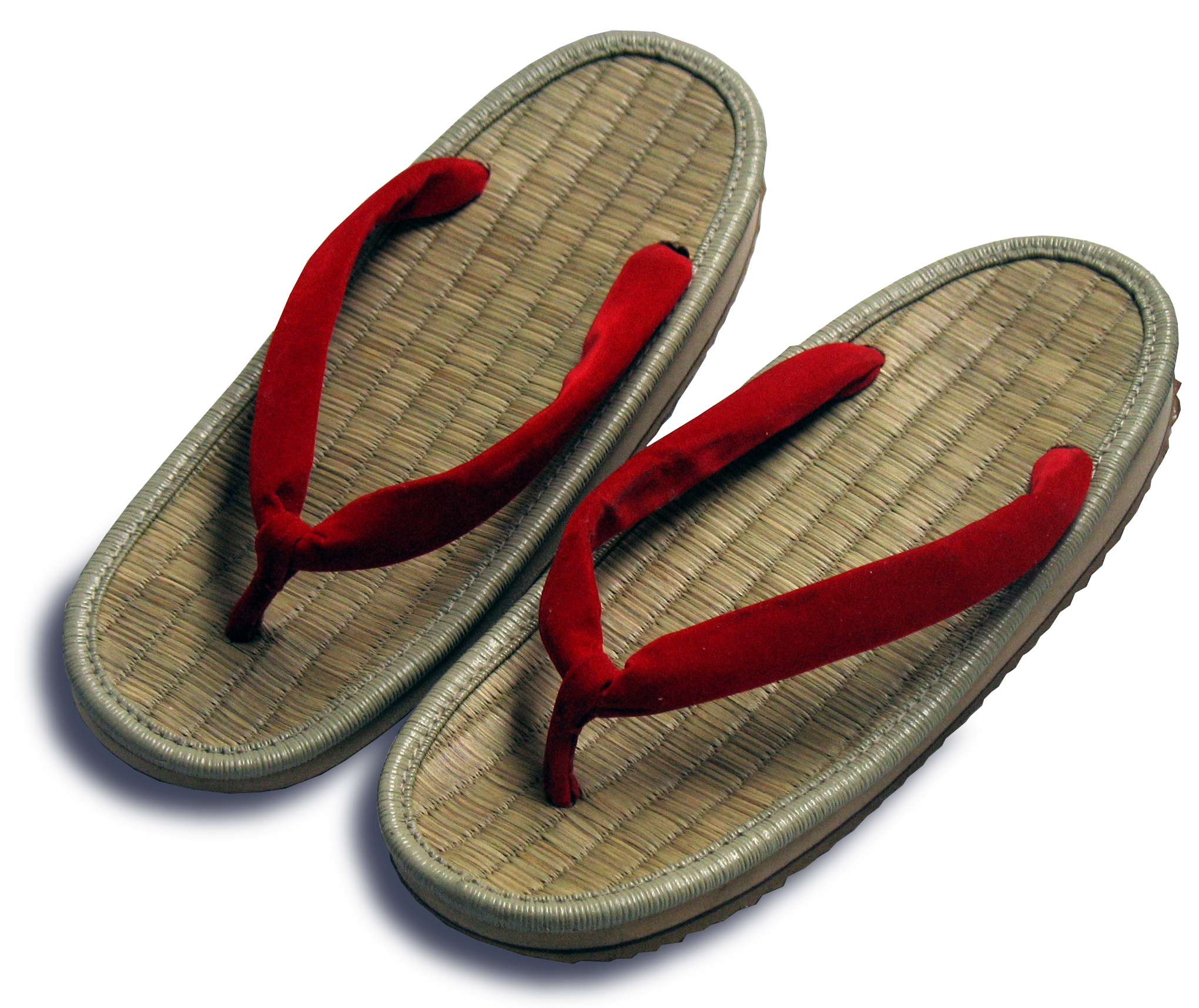 Informal straw zoori/zouri/zori sandals for women